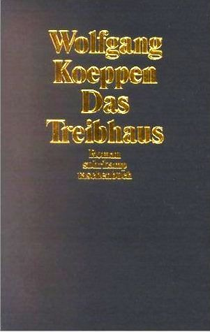 Book cover of the pocket book edition of Wolfgang Koeppen "Das Treibhaus" (first published 1953)